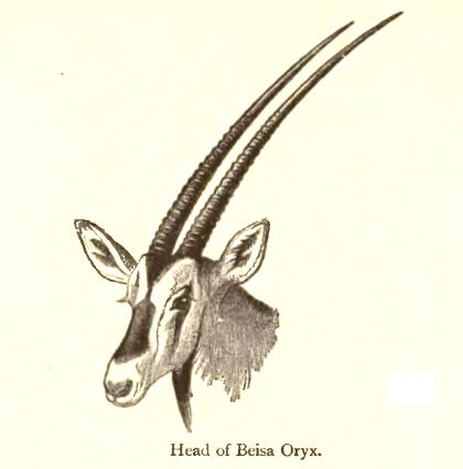 Head of Oryx beisa